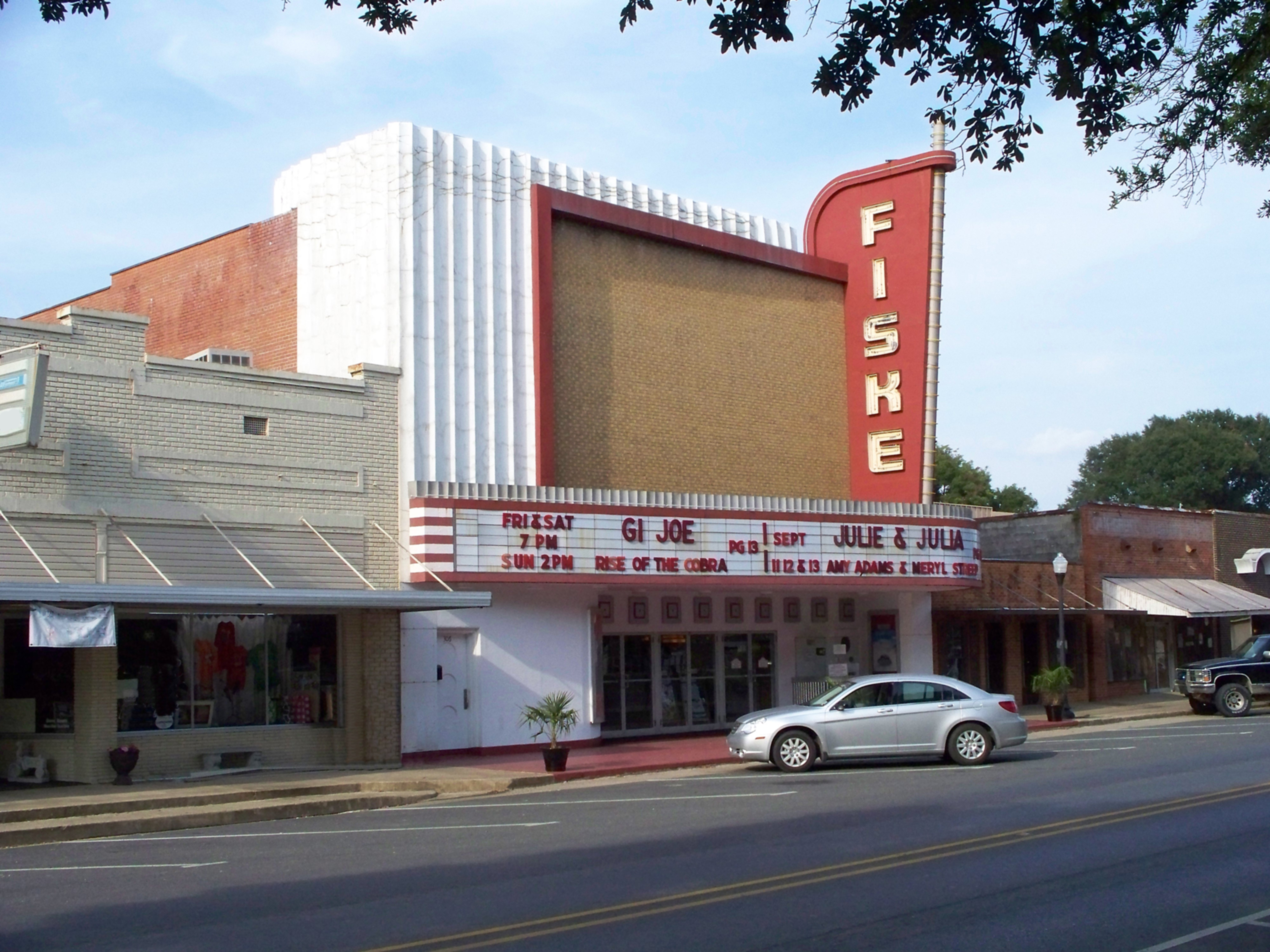 The Fiske Theatre in Oak Grove, LA, 71263. This is a shot accross Main Street, from the front of the Parish courthouse. Camera is facing northeast. Artwork and signage in adjacent buildings is painted out. There is an unfortunate car. Perhaps a later shot won't have the car. (an anon editor added the following text to the description) This picture was taken the week before front was completely repainted. Since this picture was shot the cracks that appear in the white morter has been filled and the Fiske Sign has been repainted Maroon and Gold.